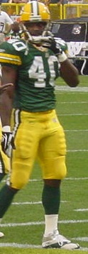 Tony Fisher during a Green Bay Packers preseason game in 2003.